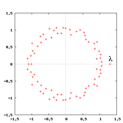 Author: user:Roberto Zanasi